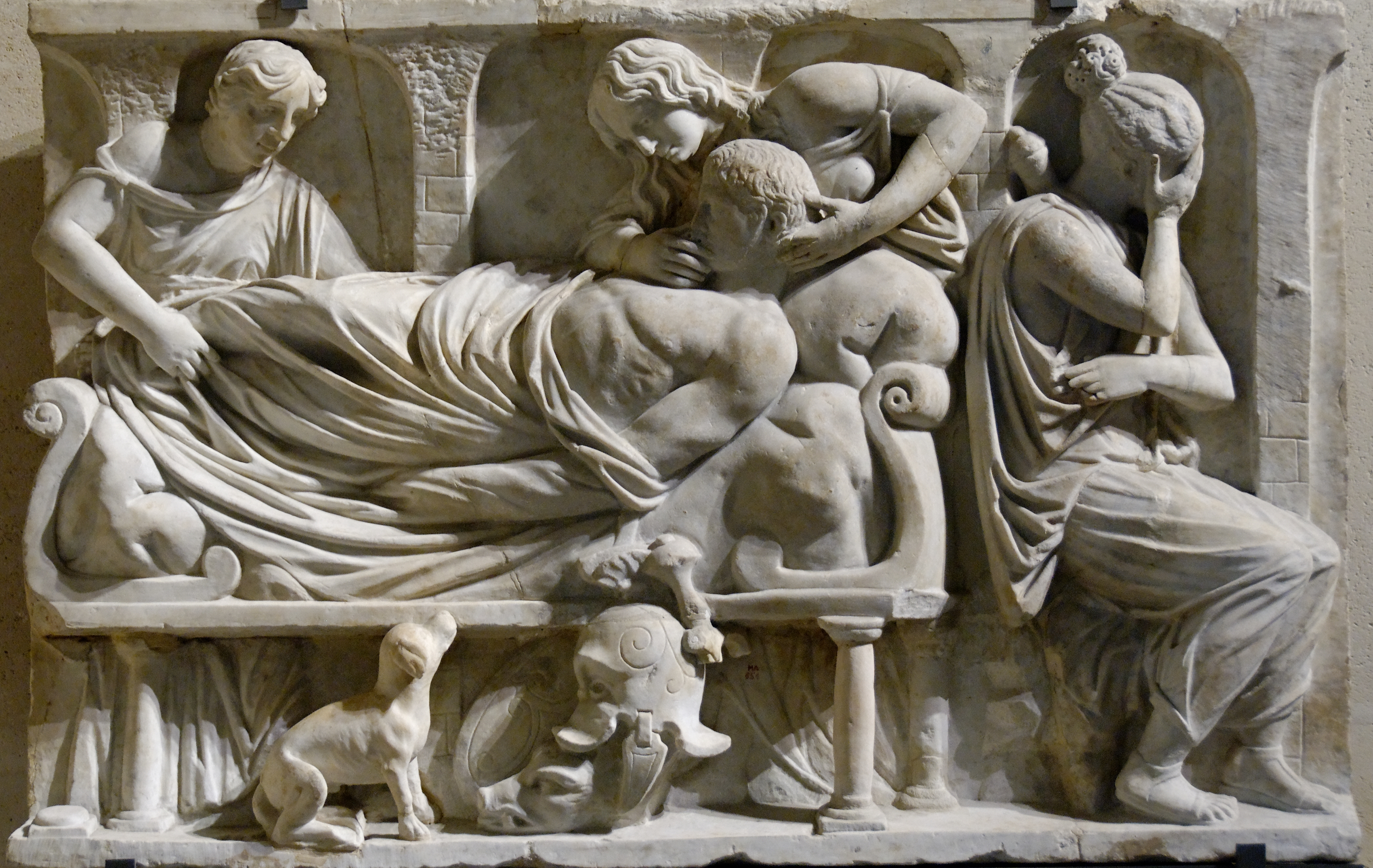 Relief, so-called "death of Meleager". Marble, 2nd century AD (heavily restored), may have come from a Roman sarcophagus.